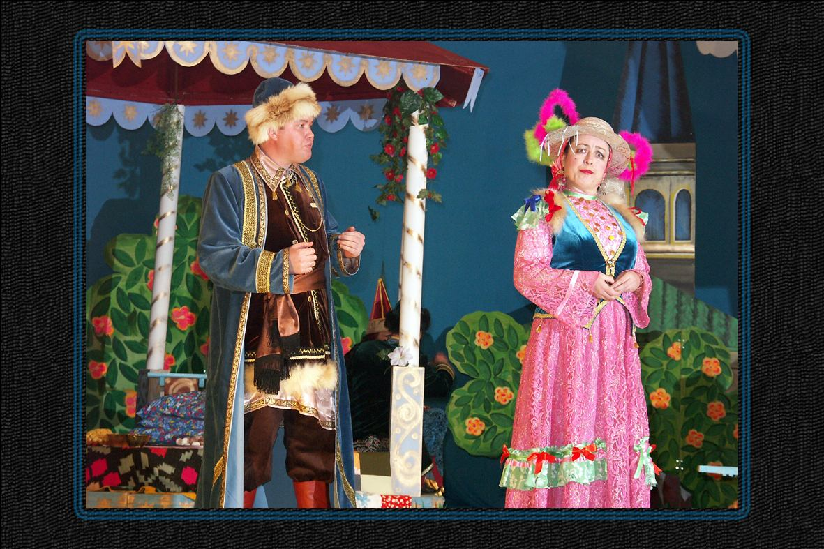 People's Artists of the Republic